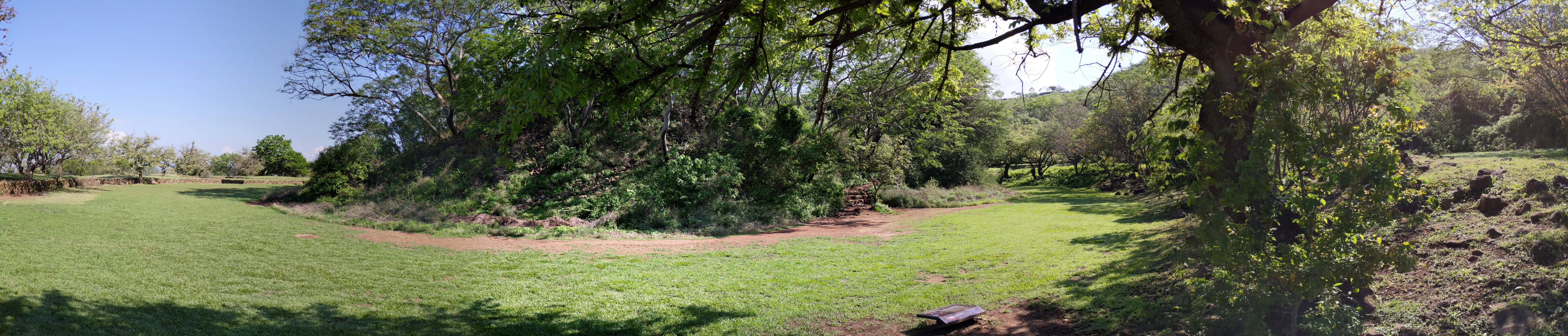 A panorama of Circle 1 at the site of Los Guachimontones, Jalisco, Mexico